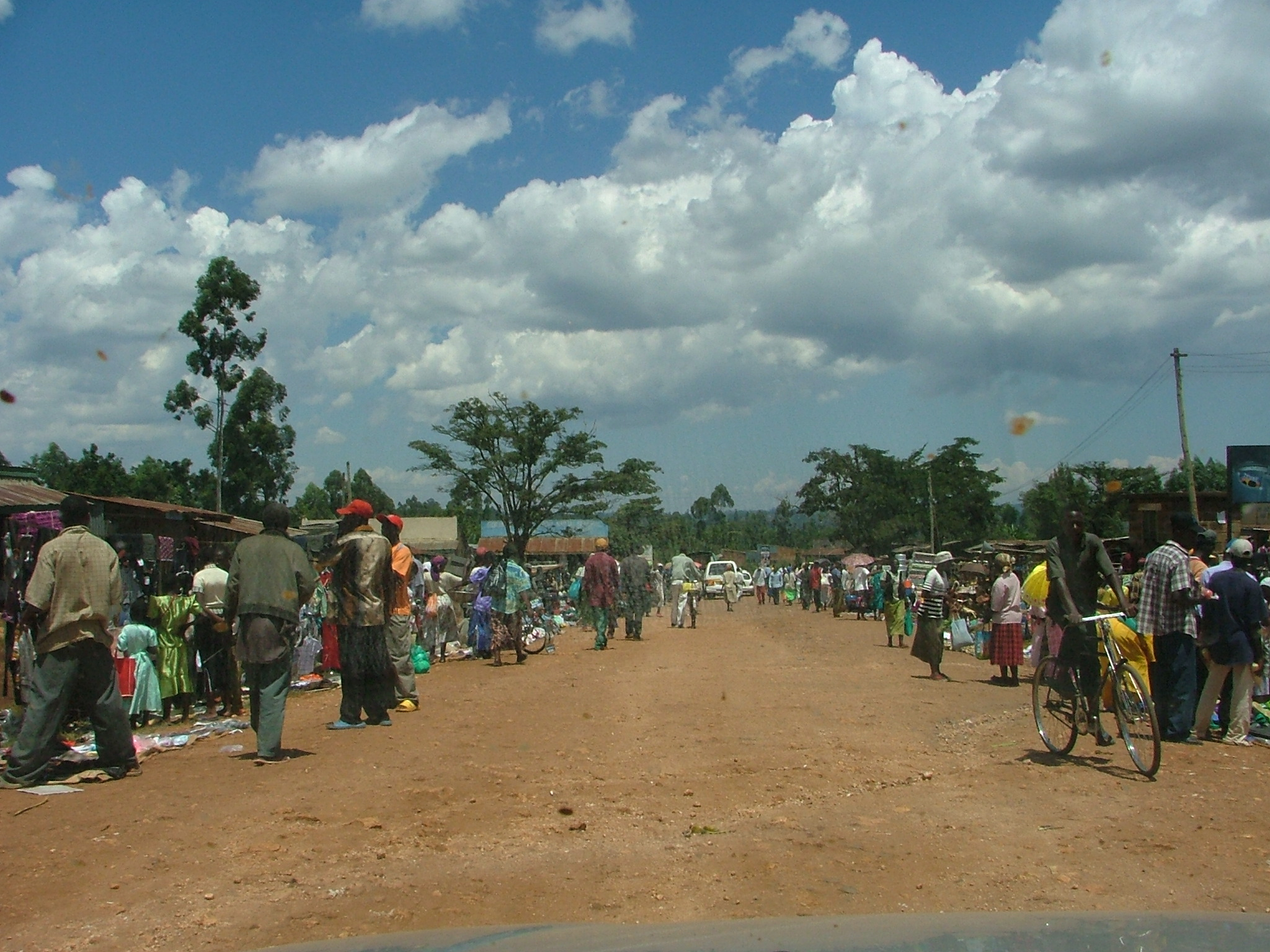 Kilingili Market Through My Car, August, 2007